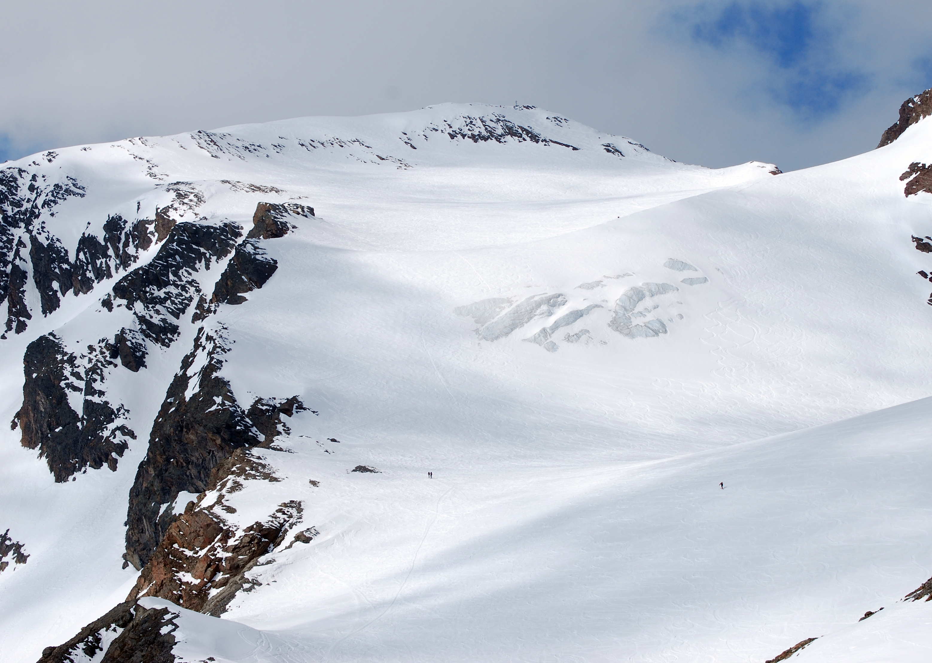 Breiter Grieskogel with Glacier Grieskogelferner from East (Zwiselbachjoch)